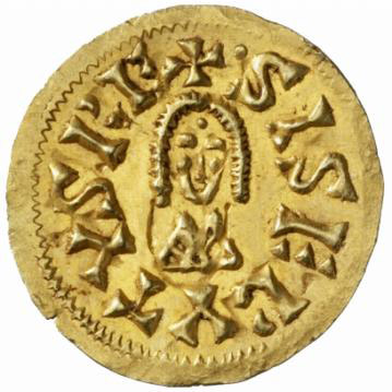 Ancient coinage.